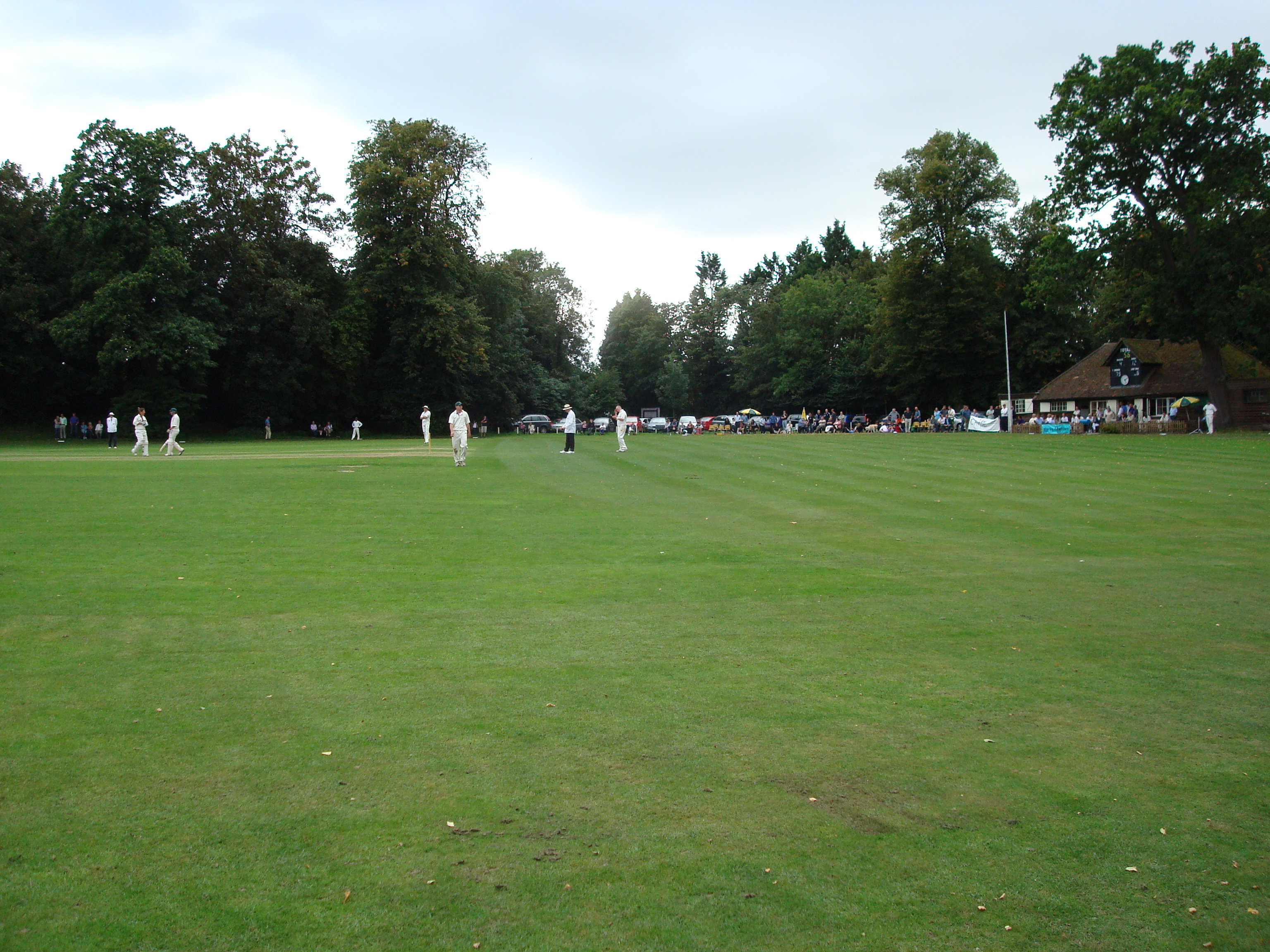 Cricket is played in the ground north of Farnham Castle. Suzanne Knights, my photo, Sep 2007